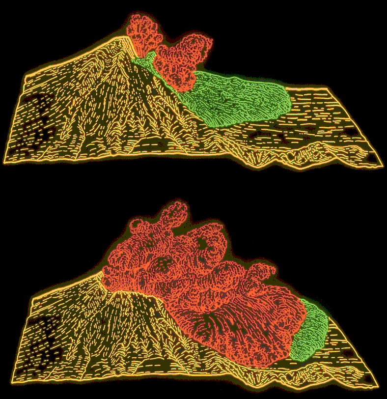 Computer animation showing May 18 1980 Mount St. Helens landslide